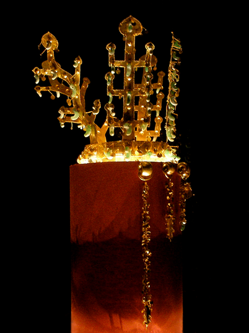 National Treasure No. 191 according to